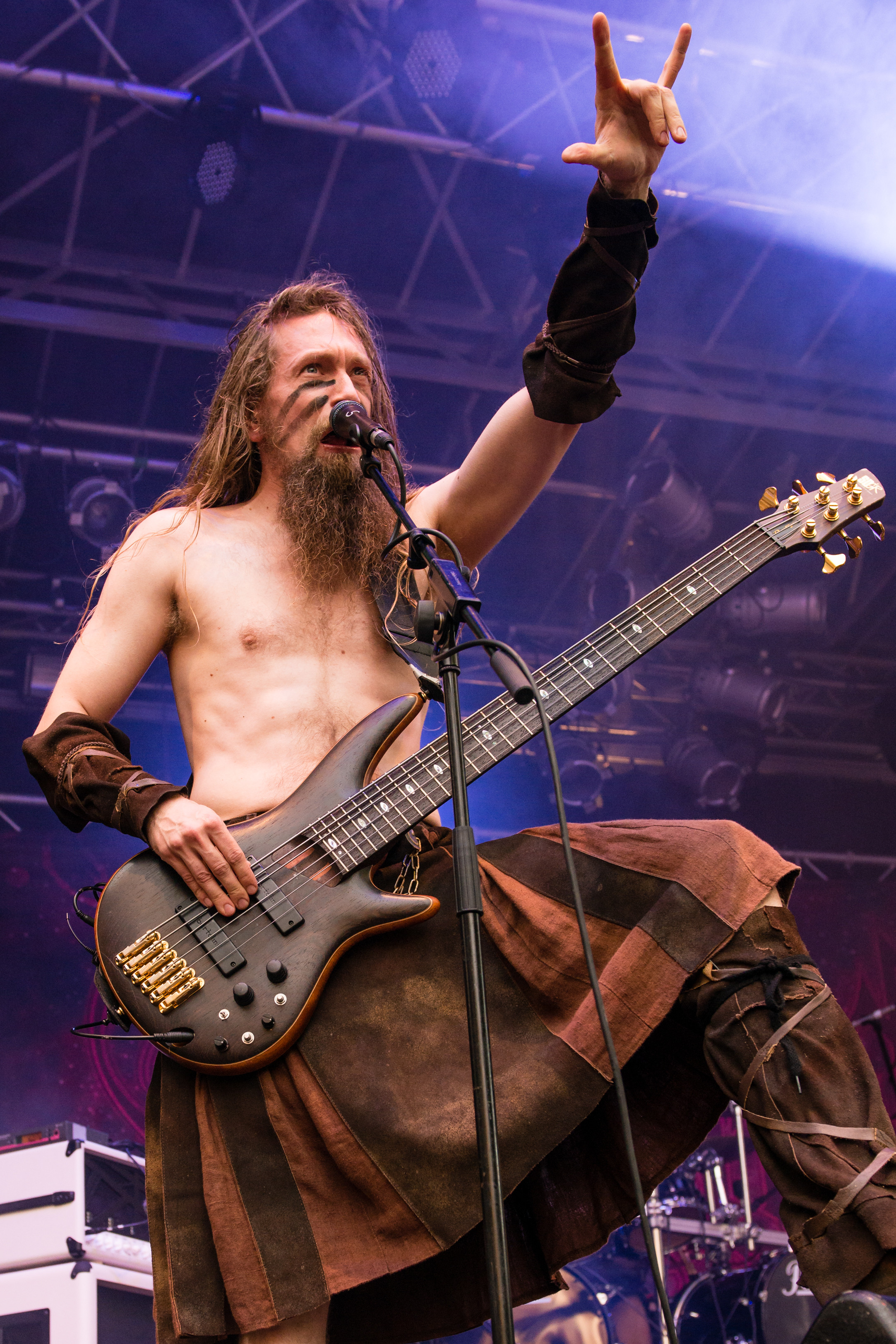 Sami Hinkka of Ensiferum live at the Castle Rock 2014 in Mülheim an der Ruhr